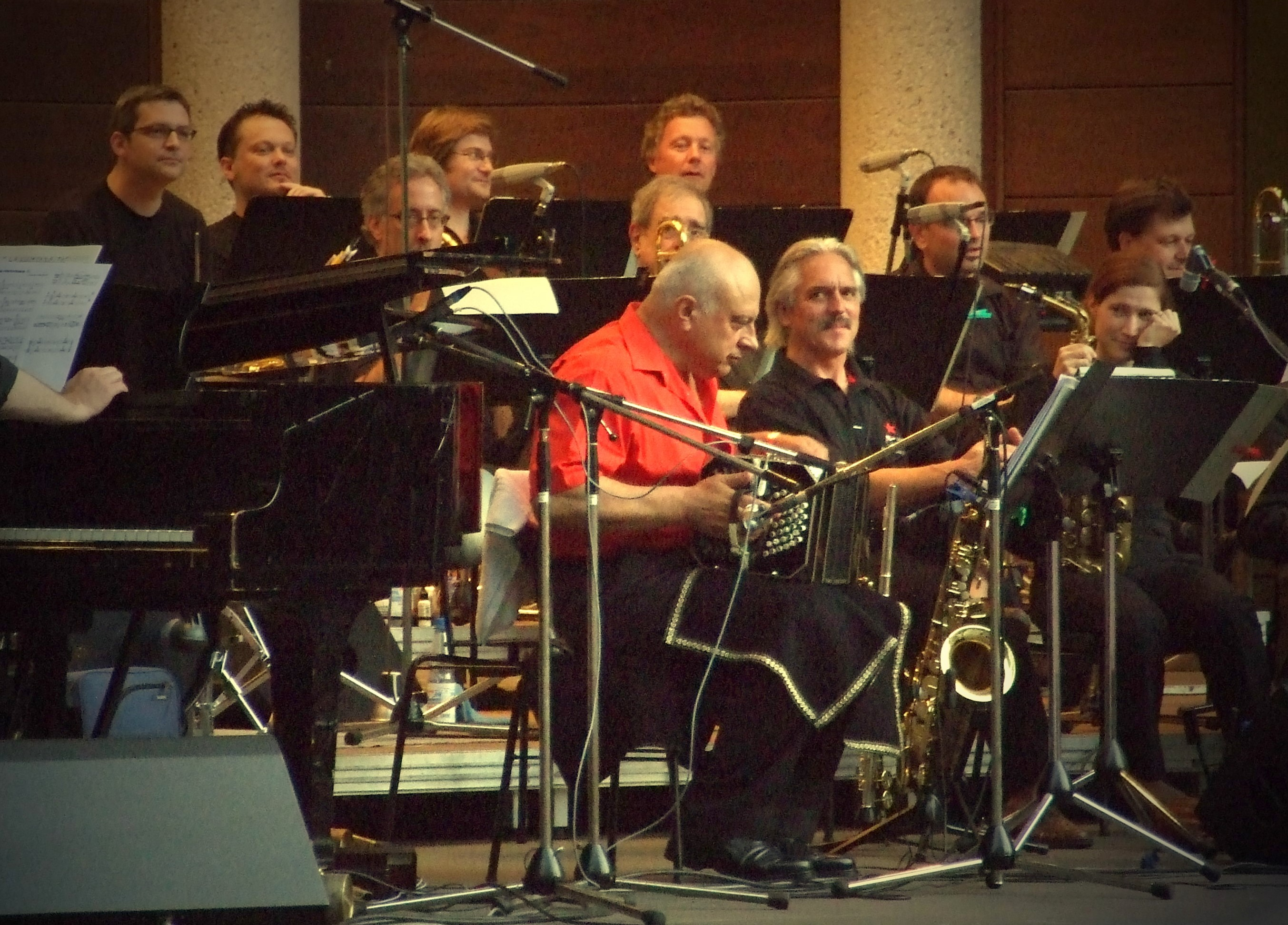 Enrique Telleria, at "Jazz im Palmengarten", Frankfurt am Main